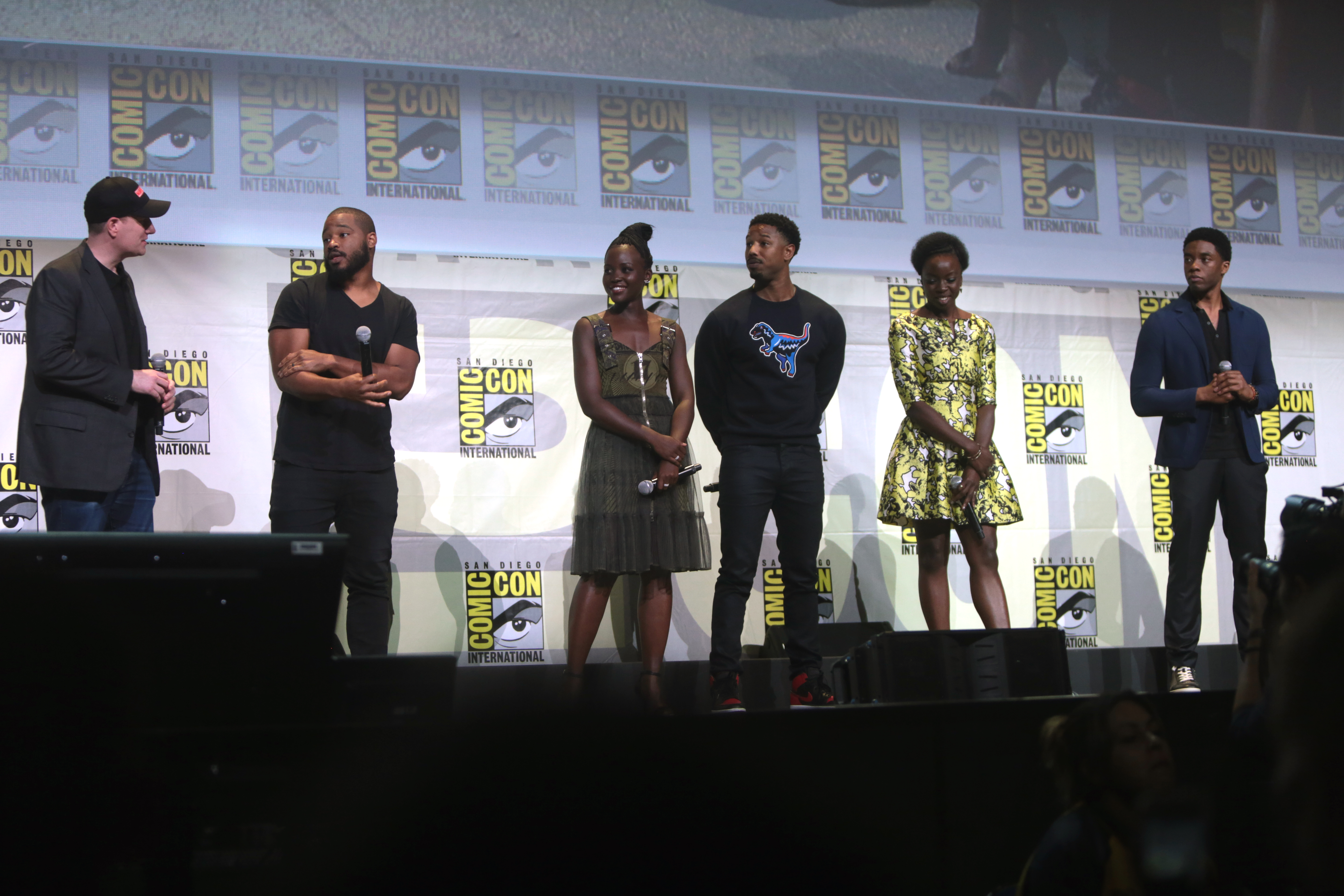 Kevin Feige, Ryan Coogler, Lupita Nyong'o, Michael B. Jordan, Danai Gurira and Chadwick Boseman speaking at the 2016 San Diego Comic Con International, for "Black Panther", at the San Diego Convention Center in San Diego, California.